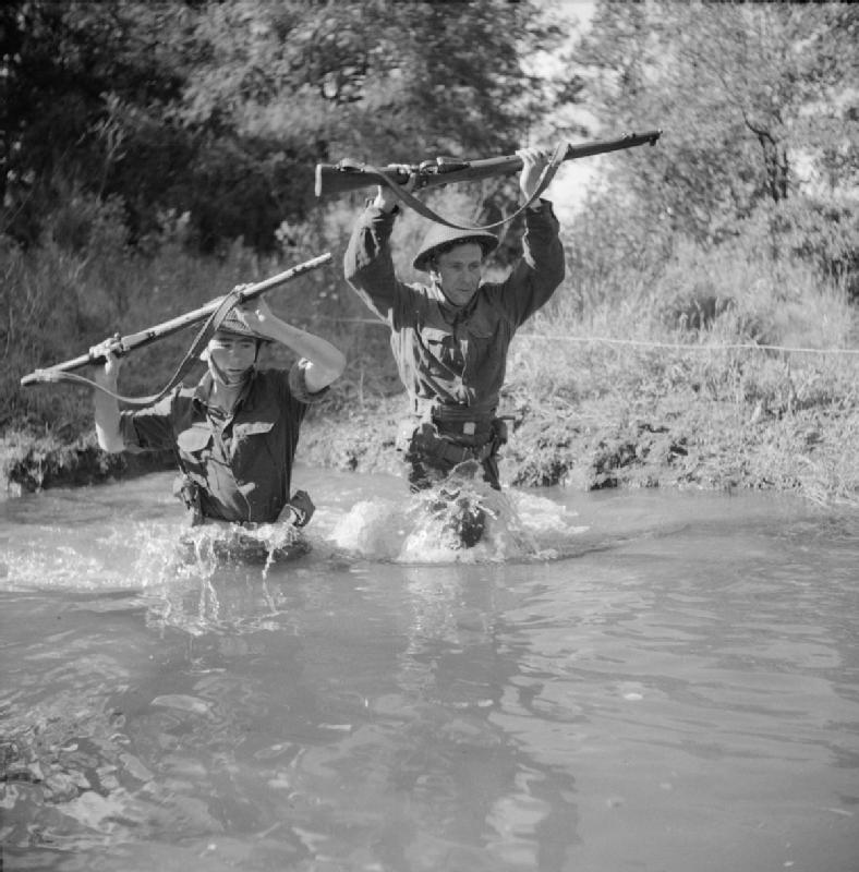 The British Army in the United Kingdom 1939-45 Men of 52nd (Lowland) Division's reconnaissance regiment wading through a stream during training in Scotland, 5 September 1942.